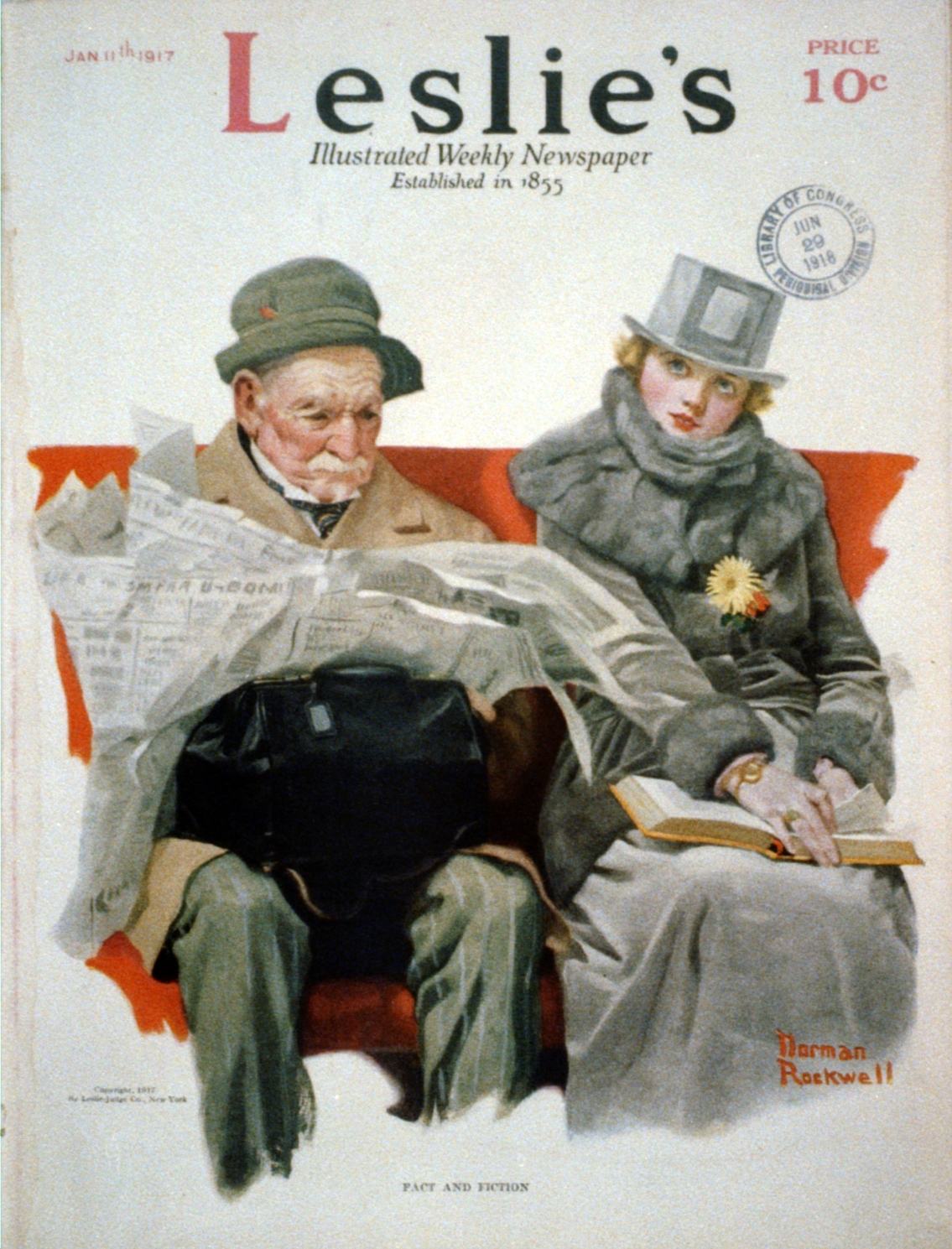 "Fact and Fiction". Color halftone reproduction of painting by American painter and illustrator Norman Rockwell (1894-1978), used as cover illustration for "Leslie's illustrated weekly newspaper", vol. 124, no. 3201, 11 January 1917.